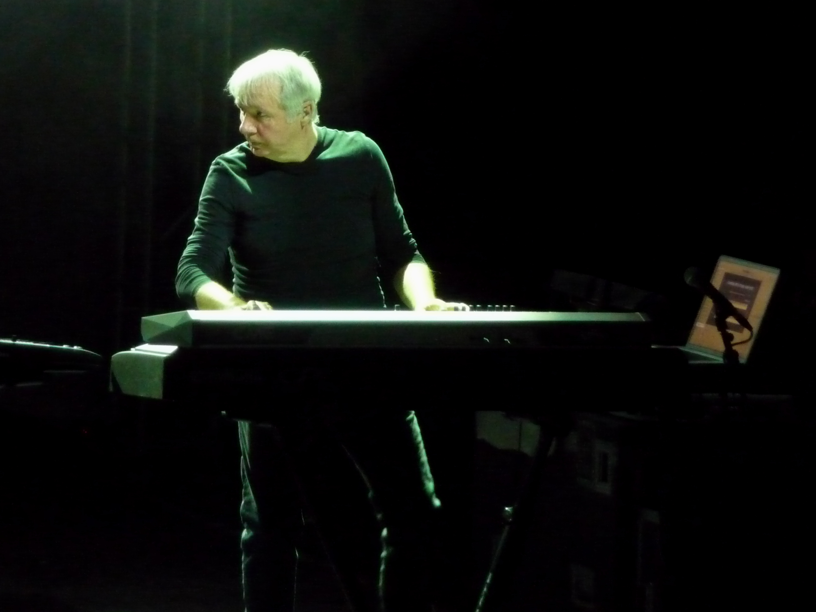 Billy Currie playing „Brilliant“ tour concert at C-Halle (Columbiahalle), Berlin, Germany